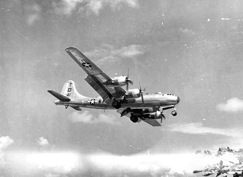 498th Bombardment Group B-29 Landing Isley Field Saipa